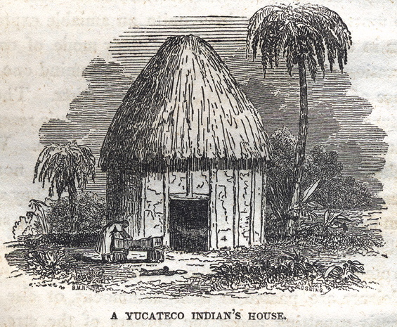 Traditonal Yucateco Indian House, 1841